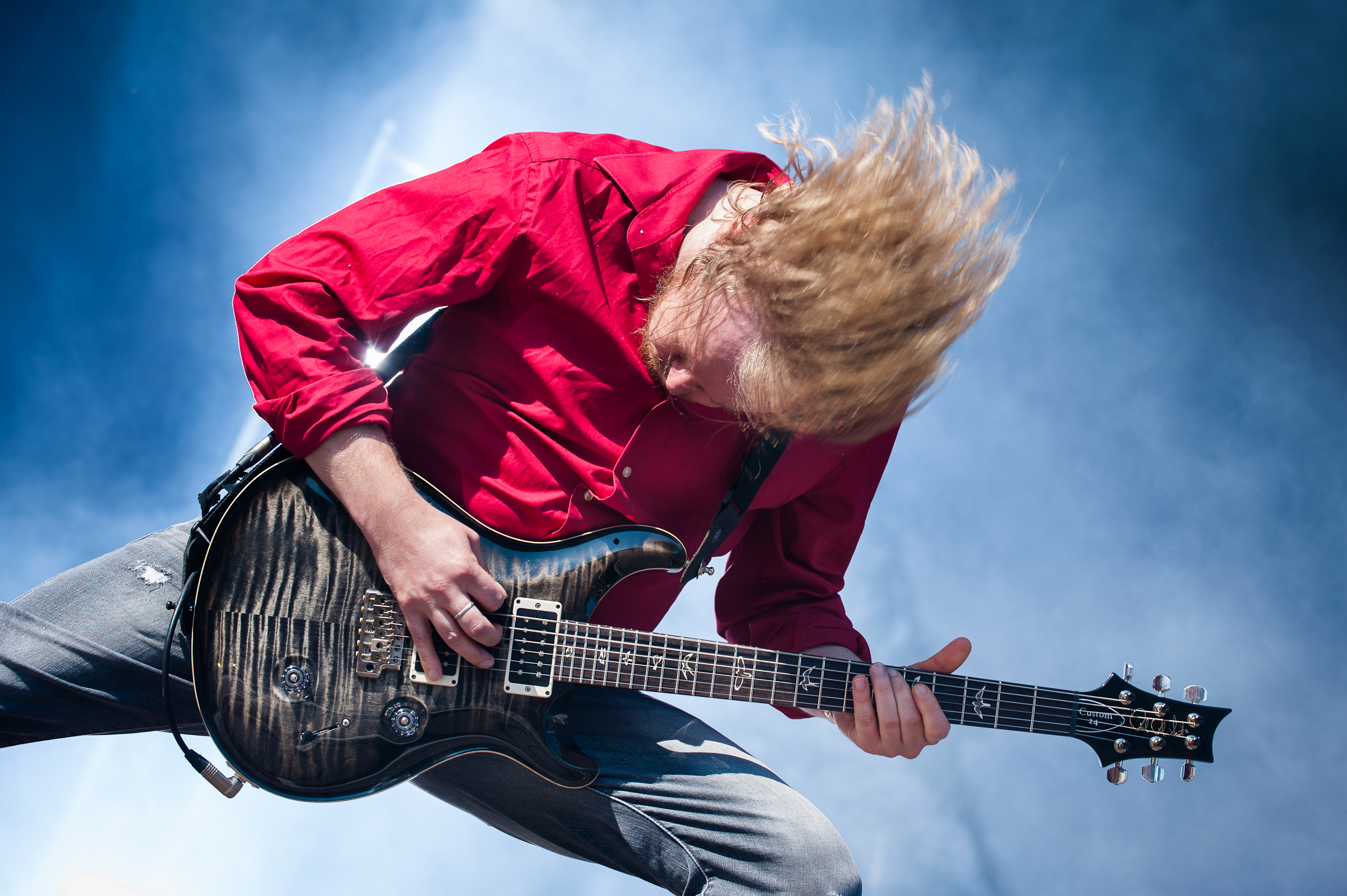 Guitar player, Alexander Dietz. by the German metalcore band Heaven Shall Burn at the Rock Festival, Rocco del Schlacko, 2012